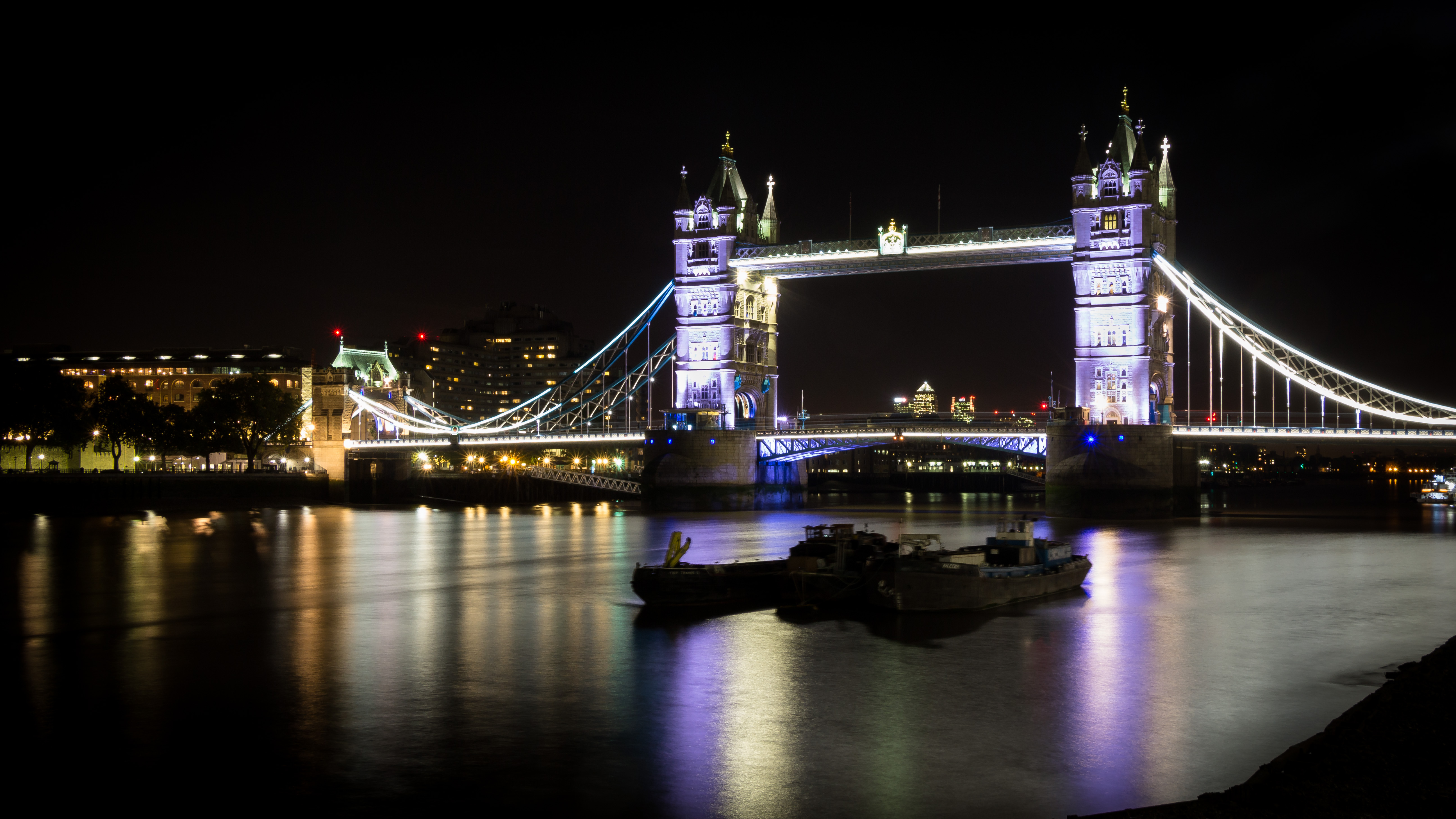 Long exposure night shot of the Tower Bridge over the river Thames, taken from South Bank.